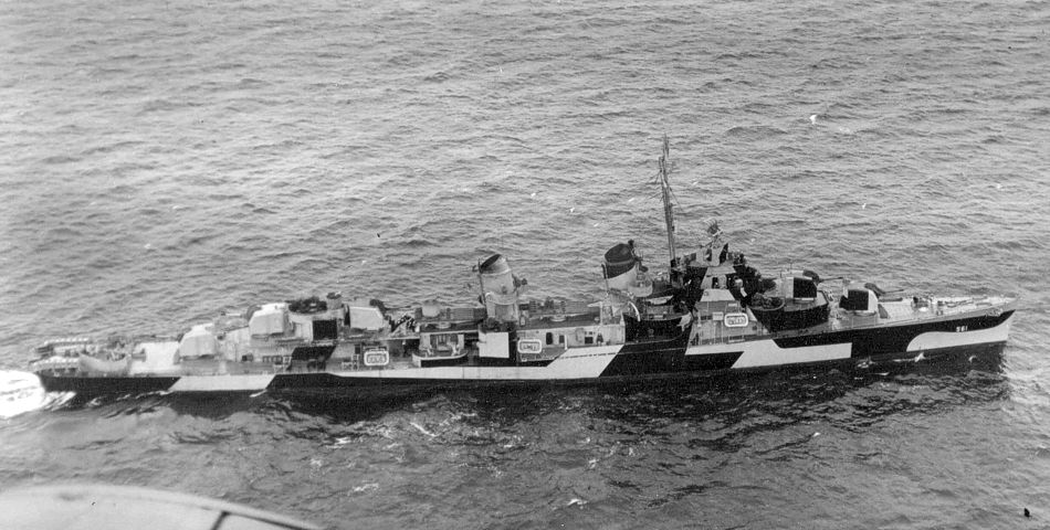 The U.S. Navy destroyer USS Prichett (DD-561) underway off Aiki Point, Washington (USA), on 4 February 1944. The ship is painted in Camouflage Measure 32, Design 13D.